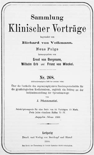 Pfannenstiel's article